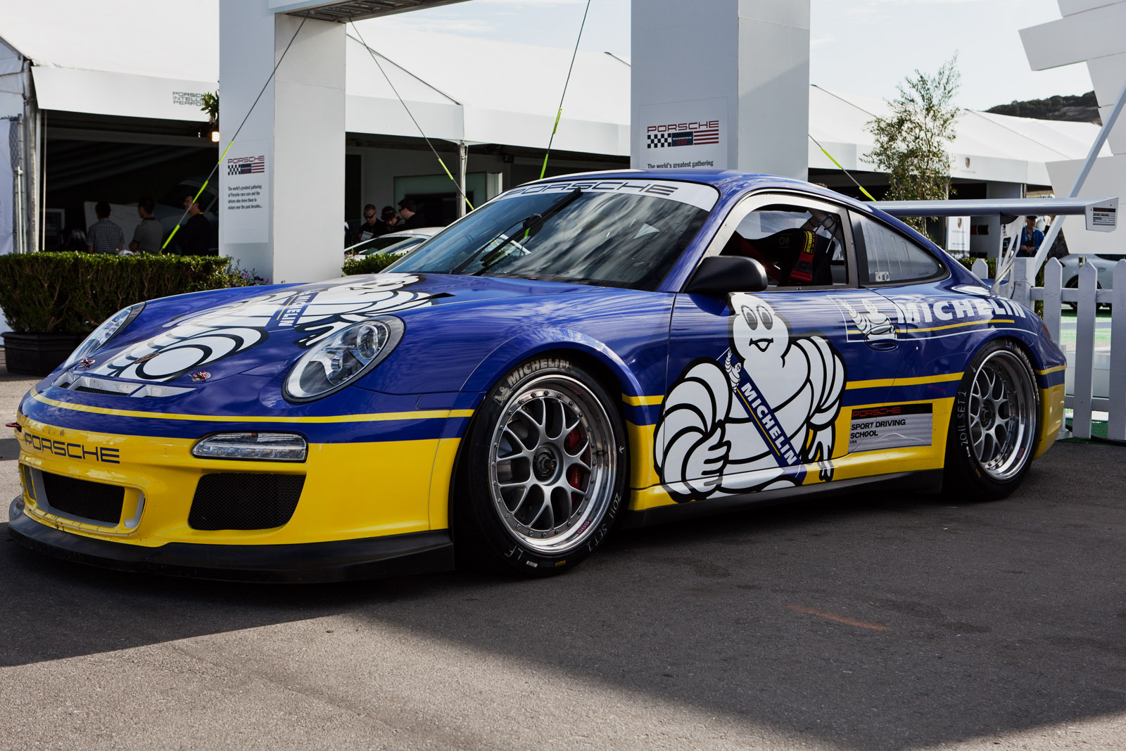 Blue Michelin Porsche 997 GT3 Cup at the Mazda Raceway Laguna Seca during the Porsche Rennsport Reunion IV.